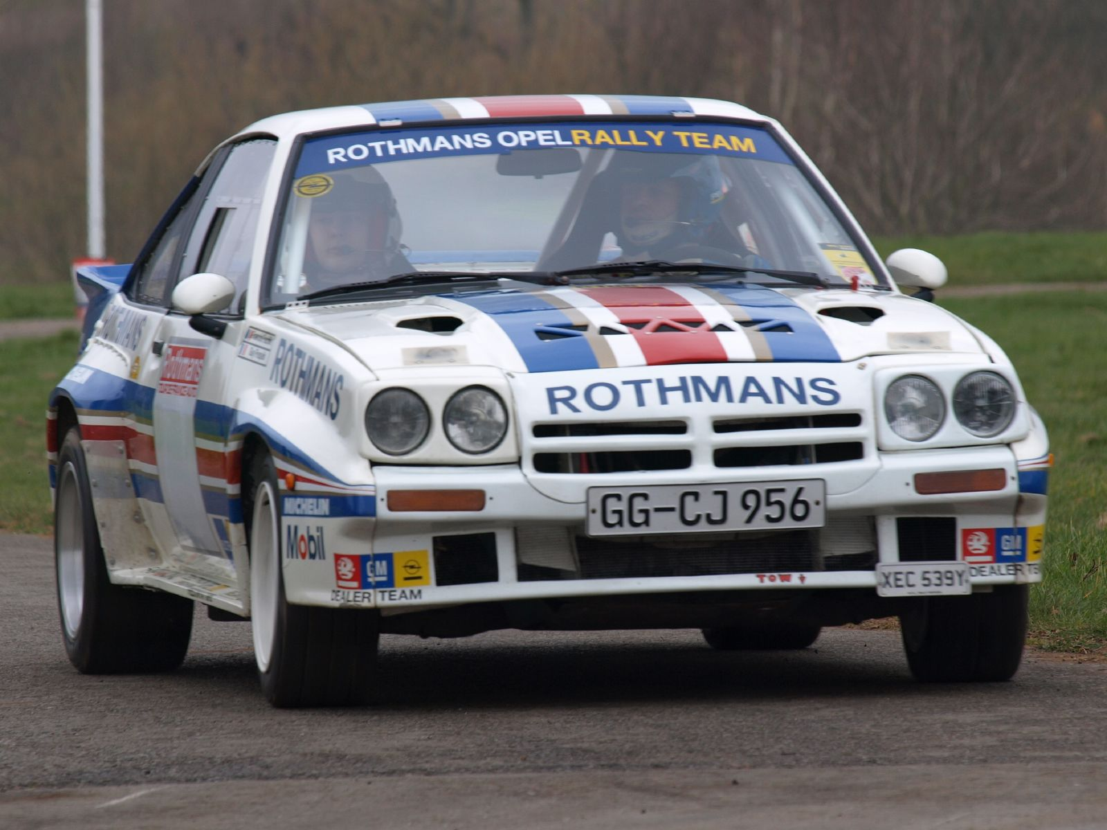 Guy Fréquelin's Opel Manta 400 driven at Race Retro 2008, the International Historic Motorsport Show, at Stoneleigh Park, Coventry, England.